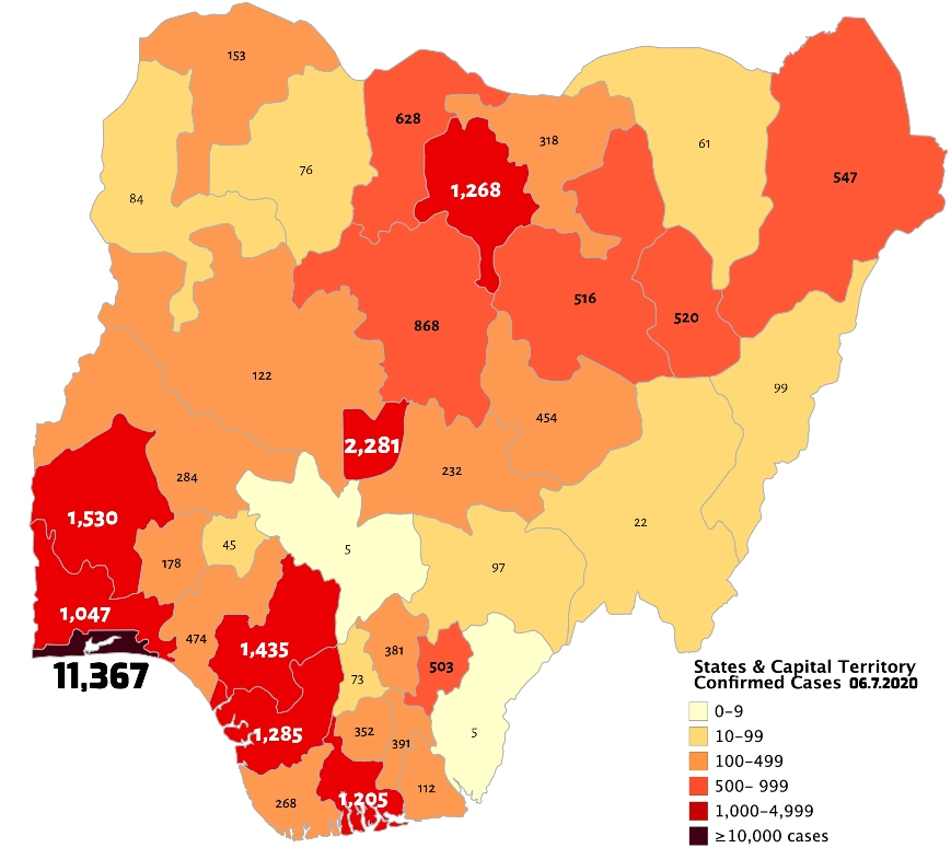 Graphical updates of covid-19 cases in Nigeria by states and territory.